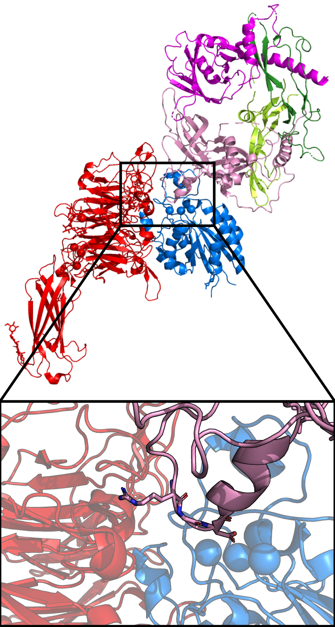 Structural view of binding between integrin αVβ6 (αV: red, β6: blue) and TGFβ1 (LAP: pink and magenta, TGFβ: hell and dark green). Zoom-in shows binding of the LAP/TGFβ1 RGD-peptide (N atoms blue, O atoms red) to the αV integrin subunit via arginine and to the β6 integrin subunit via aspartate. Aspartate makes contact to the central MIDAS metal ion in β6. Based on PDB ID 5FFO.